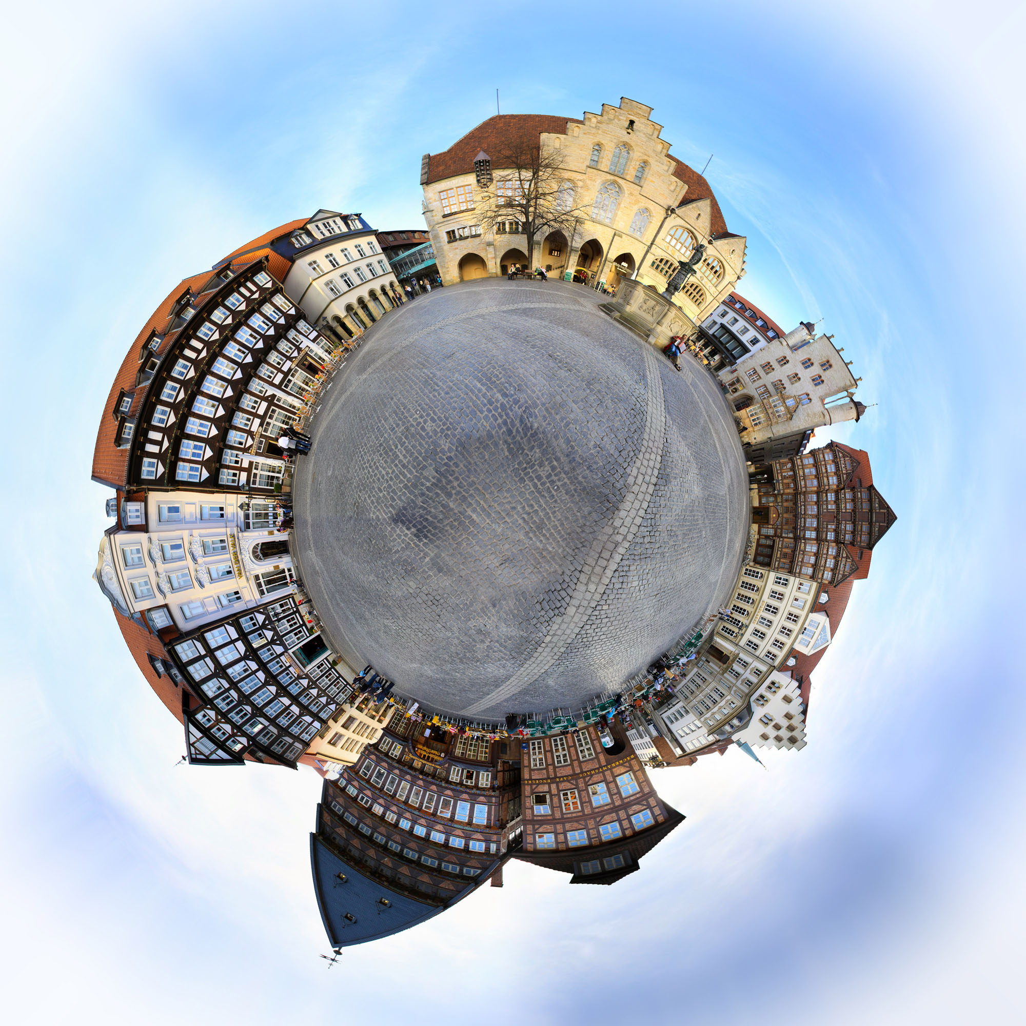 The entire market place as a spherical panorama of Hildesheim